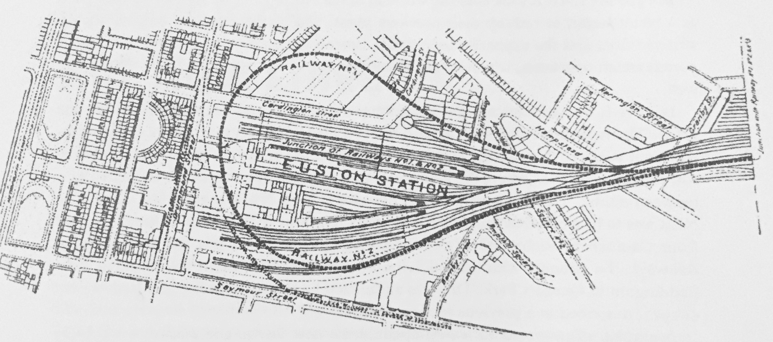 Map of underground railway loop line proposed by London North Western Railway beneath Euston station in 1906. The line would have been constructed beneath the main line terminus for new electric trains from the Watford mainline and would have included a single platform station.